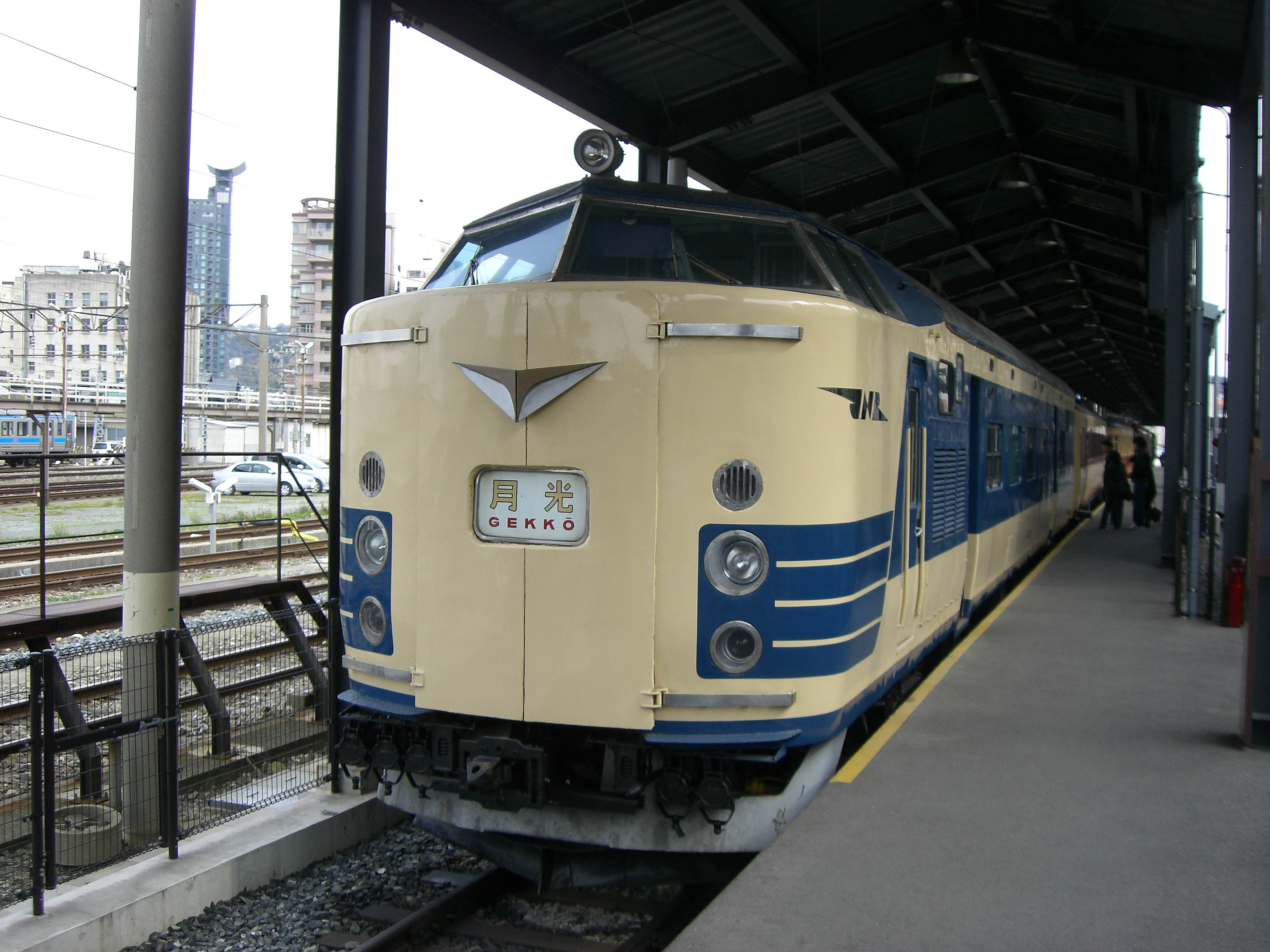 Preserved 581 series EMU car KuHaNe 581-8 (previously KuHa 715-1) at the Kyushu Railway History Museum